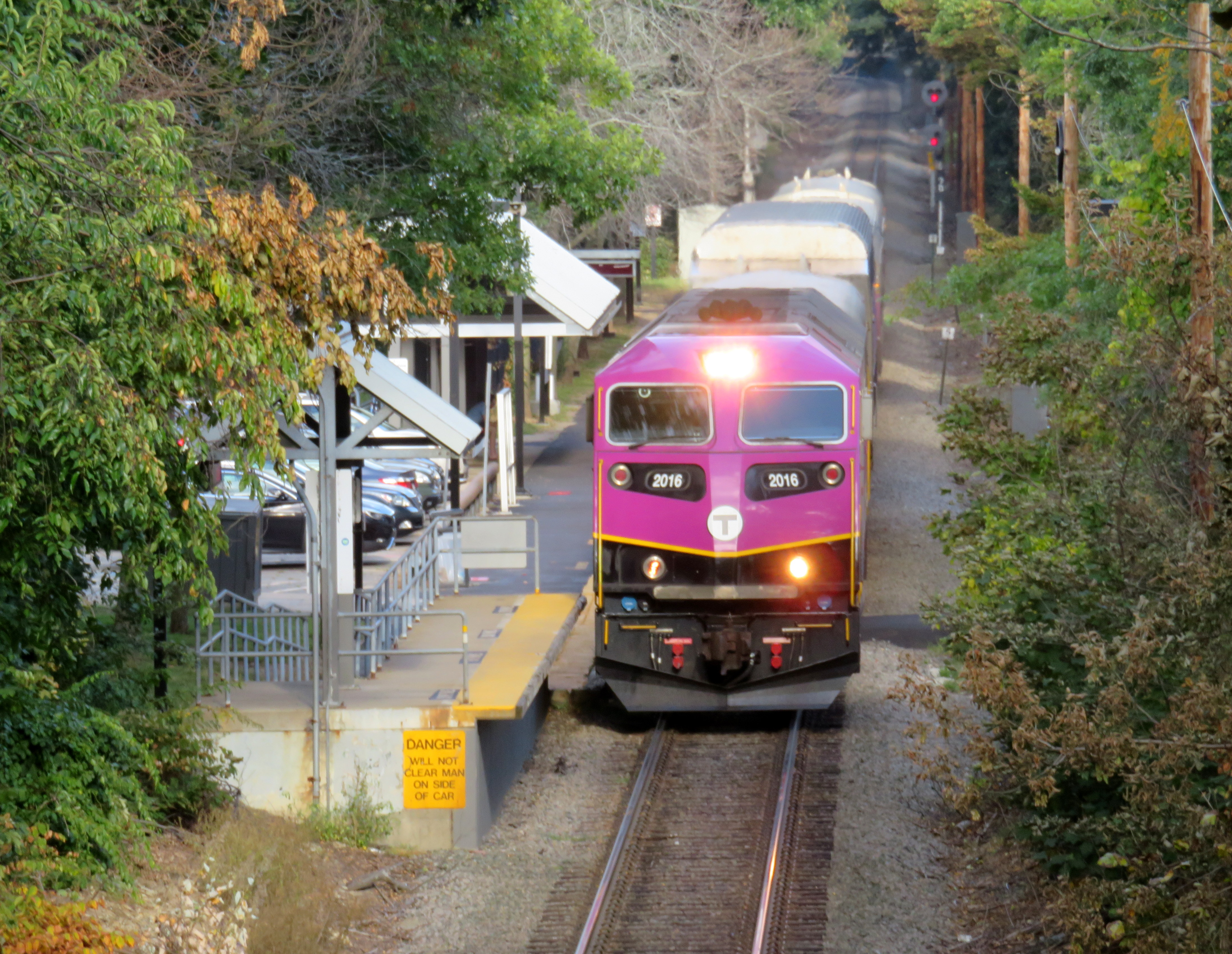 An outbound train arriving at Bellevue station in August 2018